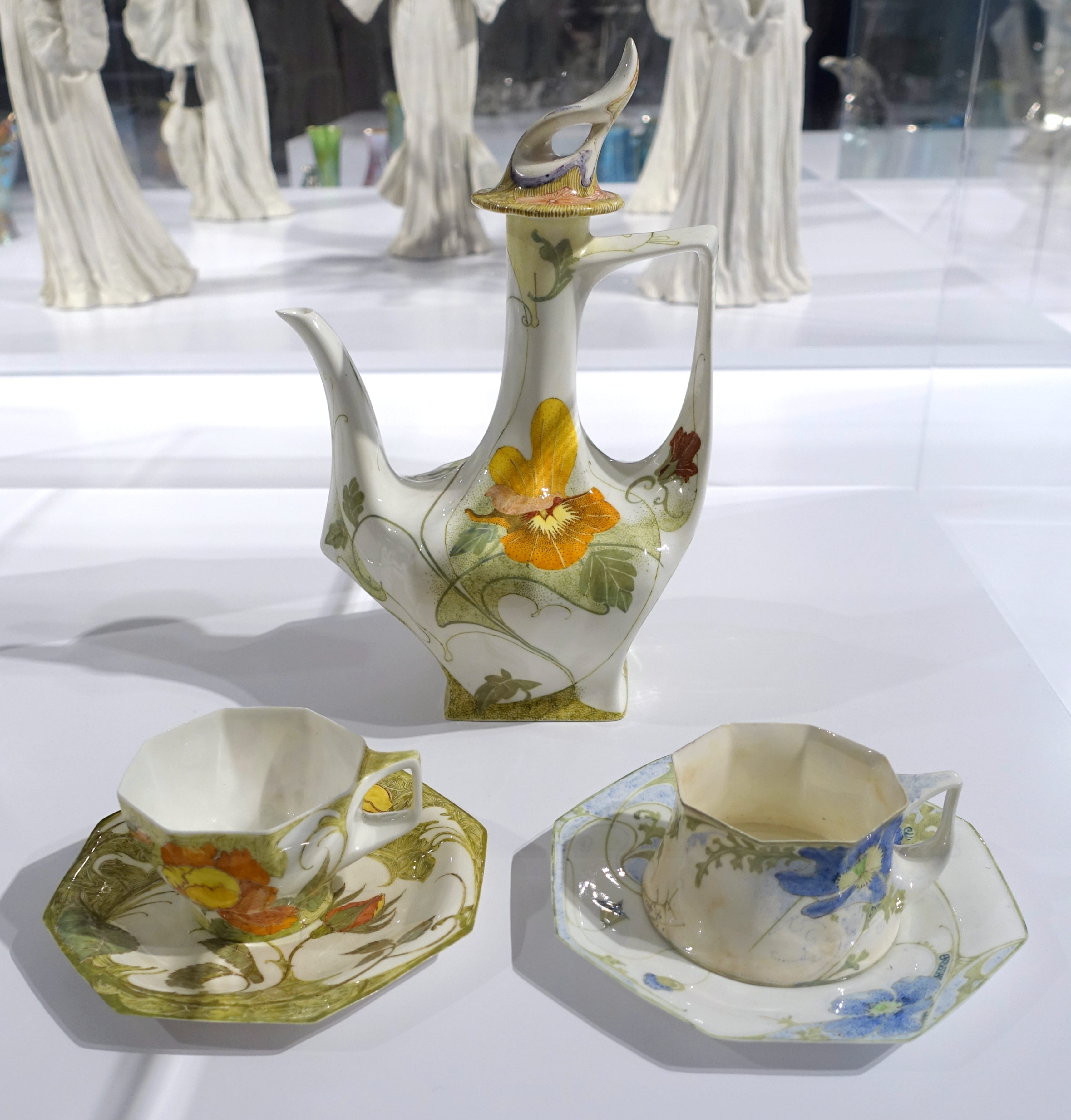 Exhibit in the Bröhan Museum, Berlin, Germany. This work is in the public domain because the artist died more than 70 years ago.